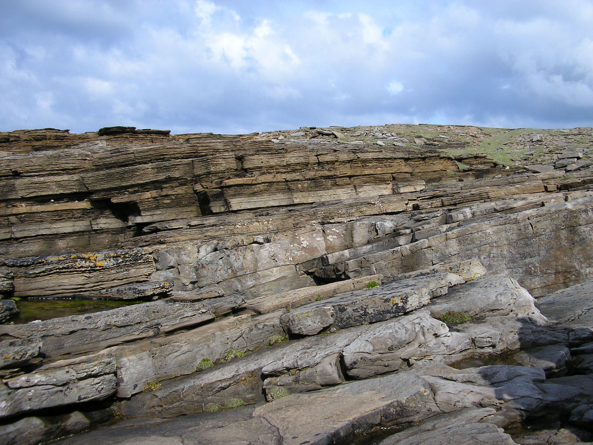 Unconformable base of Middle Devonian lacustrine Lower Stromness Flagstones over gently dipping Lower Devonian aeolian Yesnaby Sandstone, Yesnaby, Mainland, Orkney